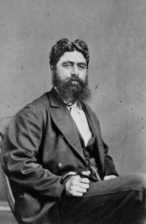 Maori chief and politician Wiremu Parata Te Kakakura during the years 1871-76, when he was between 36-41 years old